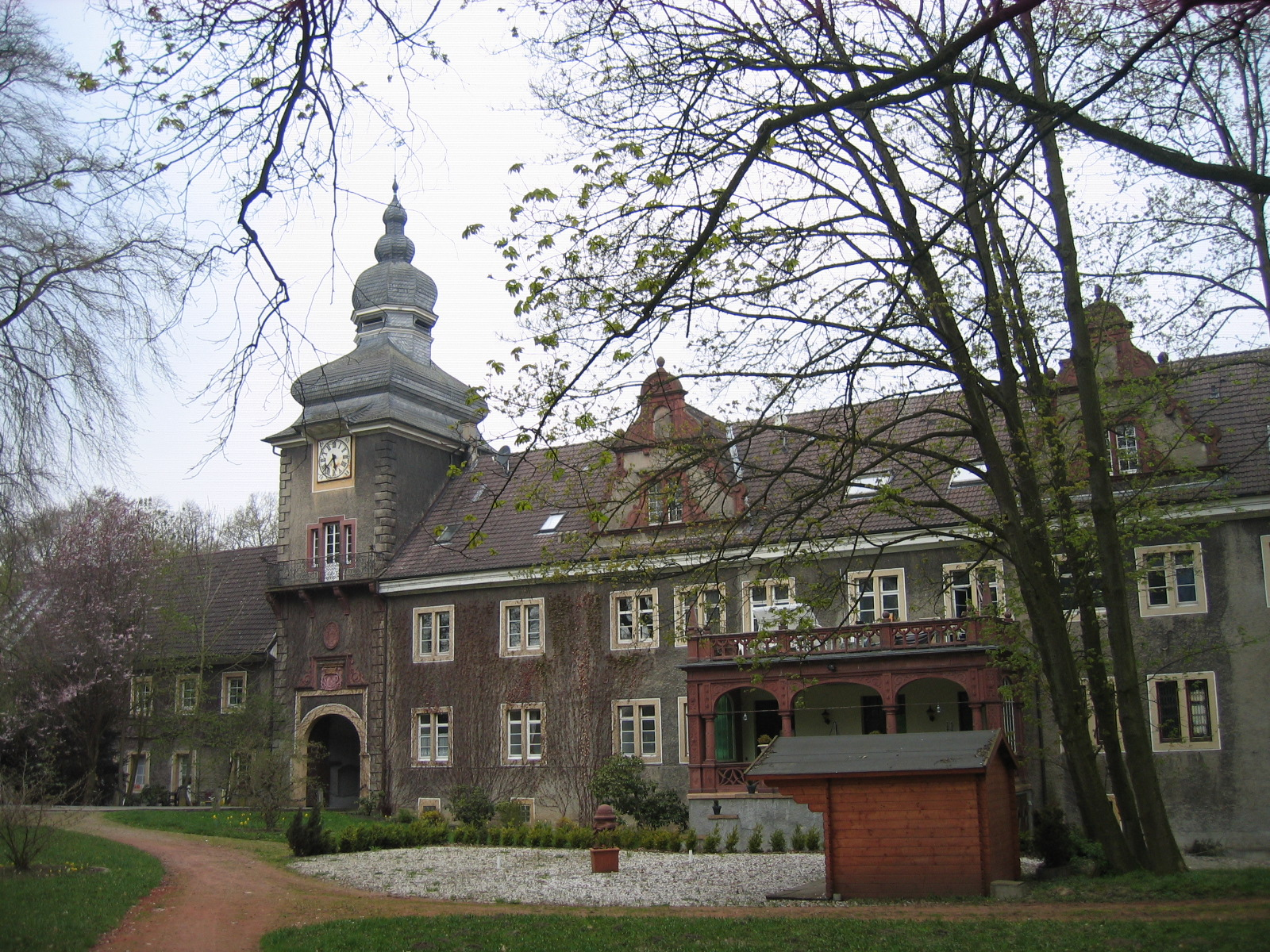 Spenge, District of Herford, North Rhine-Westphalia, Germany.